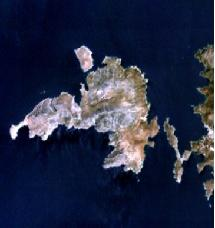 Thymaina fournon, island in Greece